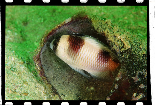 Amblypomacentrus breviceps (Chlegel & Müller, 1839)